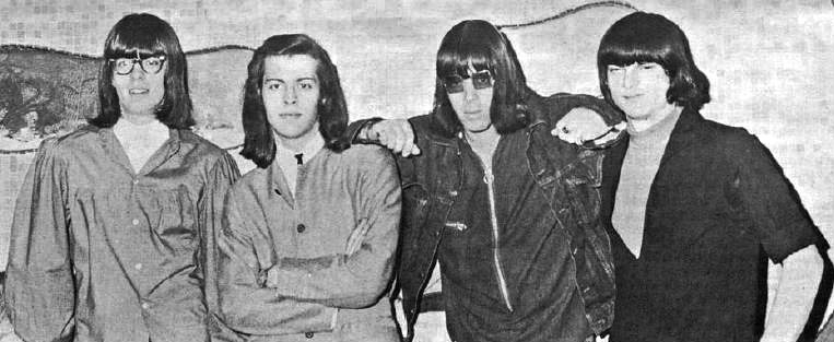 Photo of the rock group The Seeds. From left-Rick Andridge, Daryl Hooper, Sky Saxon and Jan Savage.